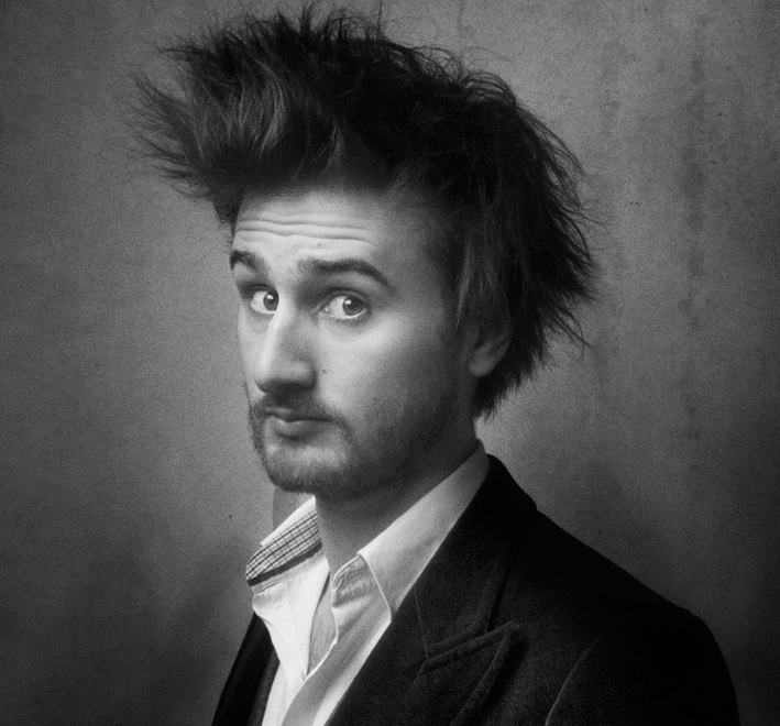 French harpsichordist Jean Rondeau pictured circa 2015-2016 Other information note Creative Commons license at bottom of page for all content